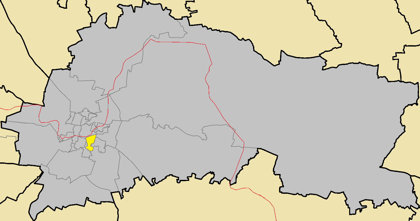 Omerie in Nicosia Municipality.